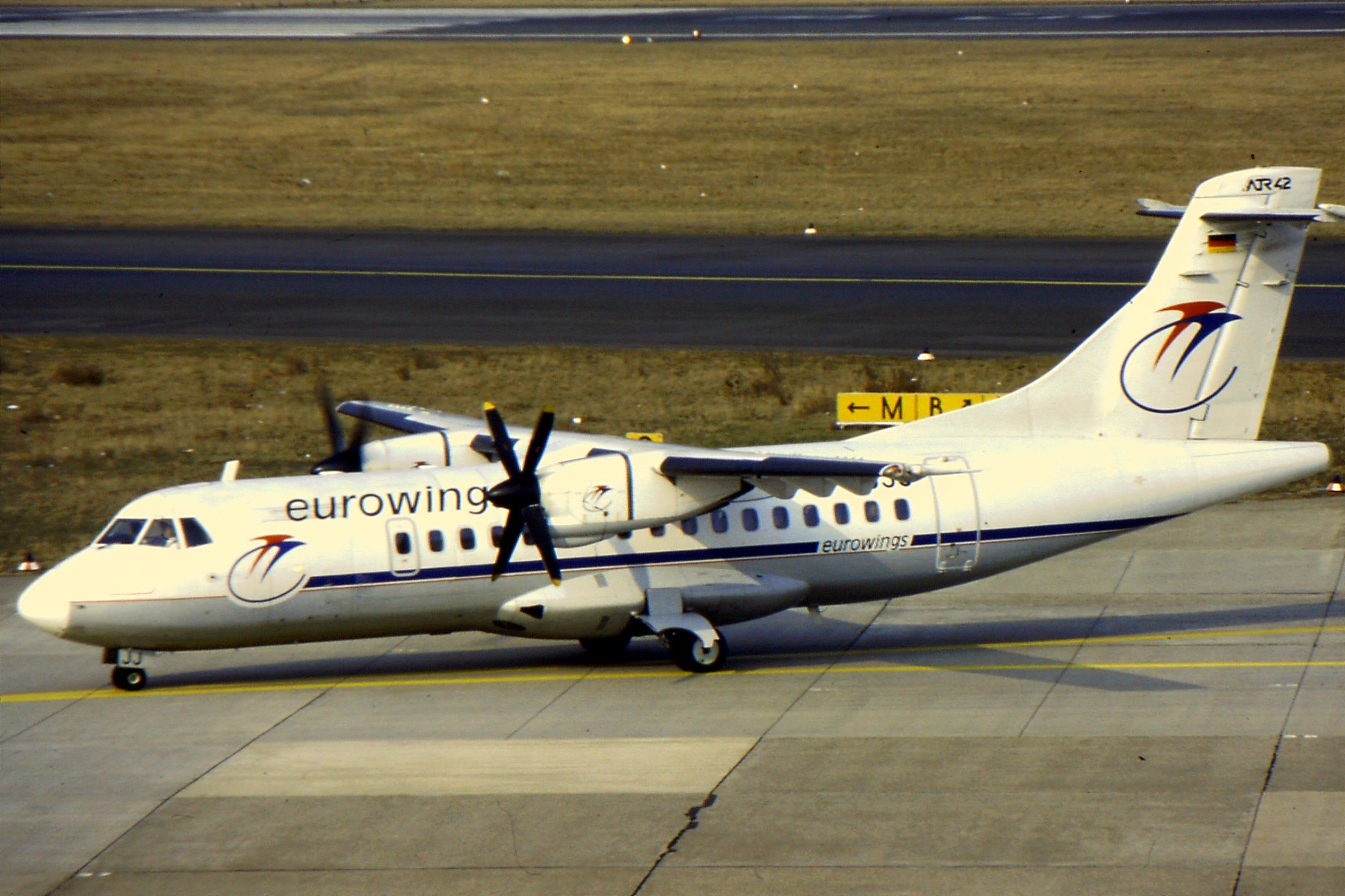 Eurowings ATR-42 D-BJJJ at DUS